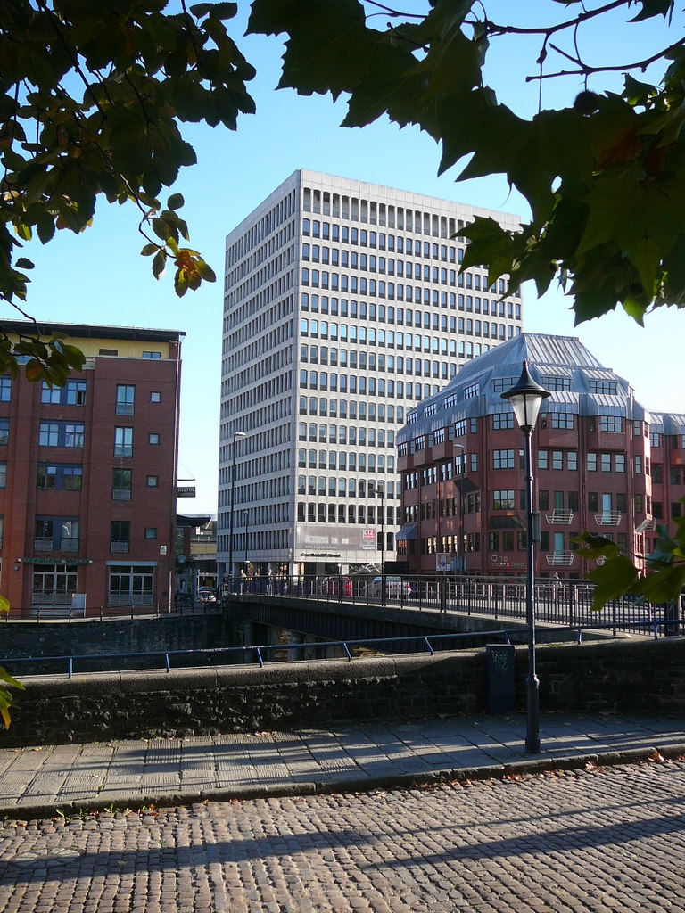 The 'Robinson Building' Redcliff Street, Bristol